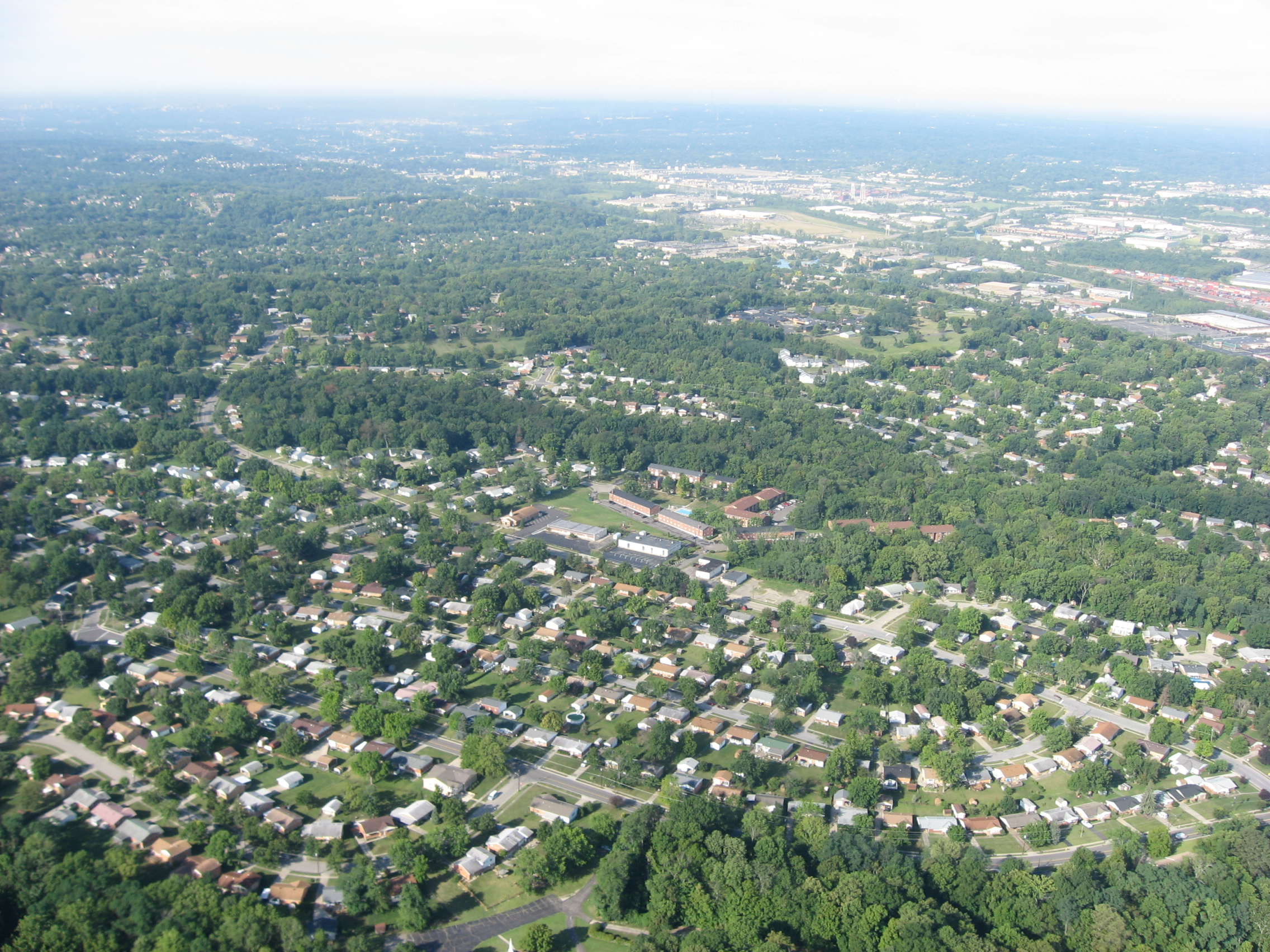 Aerial view of southern Sharonville, a city primarily in Hamilton County, Ohio, United States; although part of the city extends into Butler County, this picture is taken exclusively over Hamilton County. The church and parking lot in the center of the picture are located along Sharondale Road just north of its intersection with Elljay Drive. Picture taken from a Diamond Eclipse light airplane at an altitude of 1,740 feet MSL and a bearing of approximately 232º.